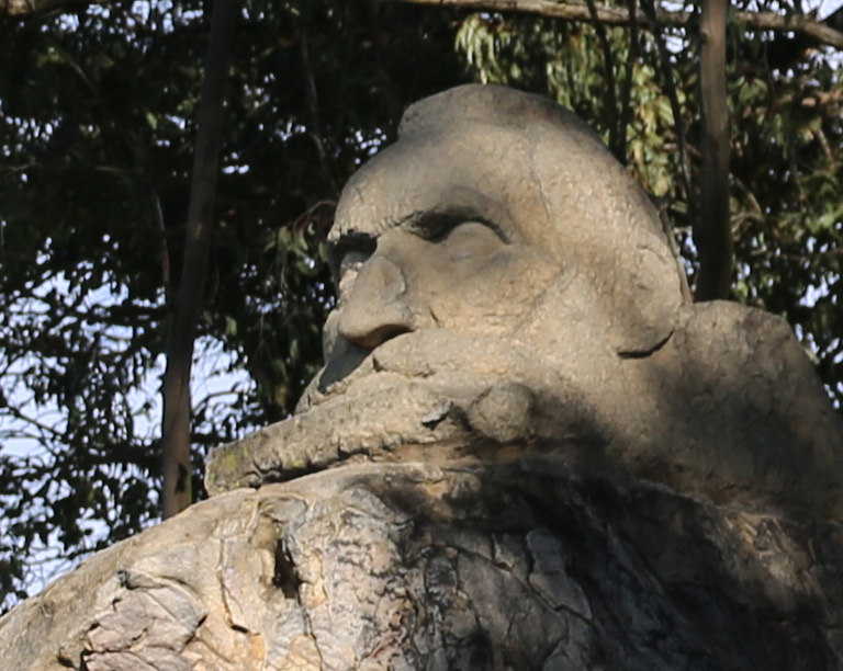 The bust of Francesco Franceschi, carved into the top of a sandstone boulder on his old property in Santa Barbara, and now poised to roll into the street below, as winter storms undermine the steep ground on which the bolder reposes.